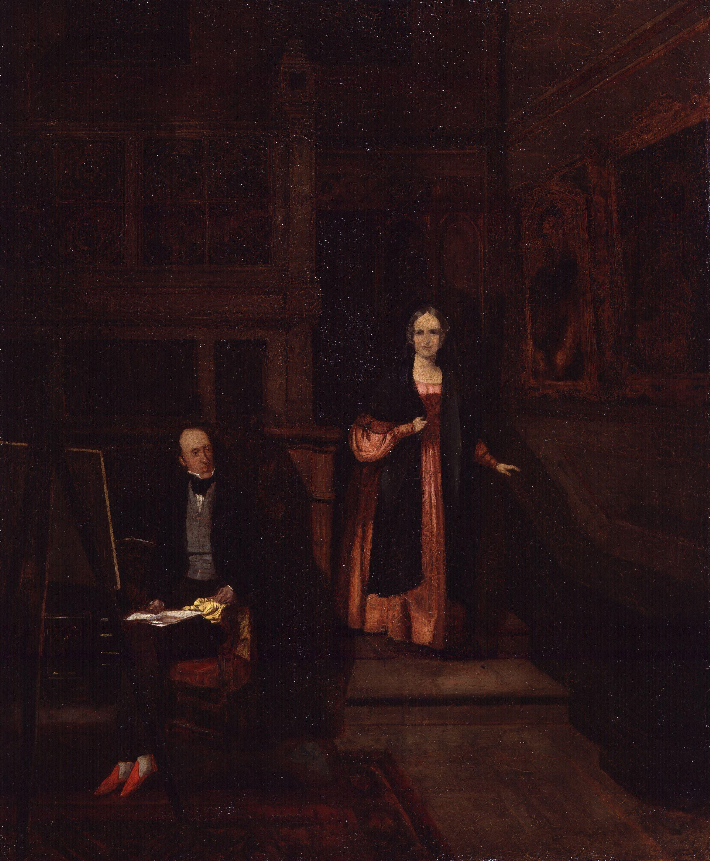 Francis Seymour Larpent; Charlotte Rosamund Larpent (née Arnold), by unknown artist, given to the National Portrait Gallery, London in 1951. All images in this batch have an unknown author, but there is strong evidence it was first published before 1923 (based mainly on the NPG's estimated date of the work).